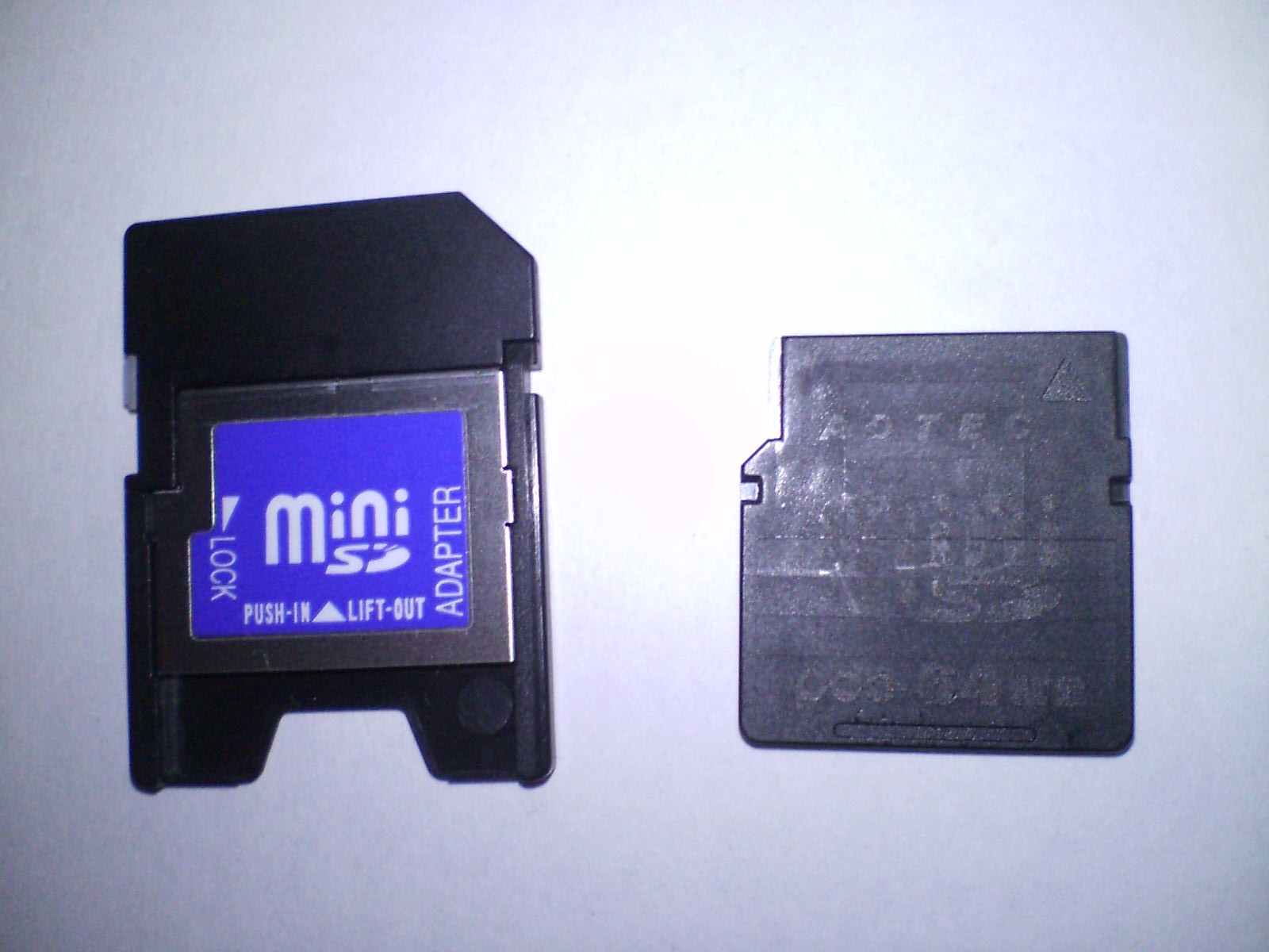 miniSD Memory Card and adapter